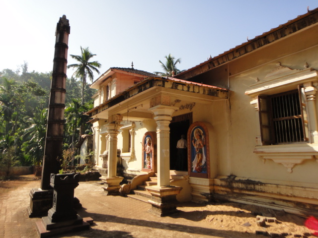 Kodlamane Vishnumurthy Temple, Balkur.